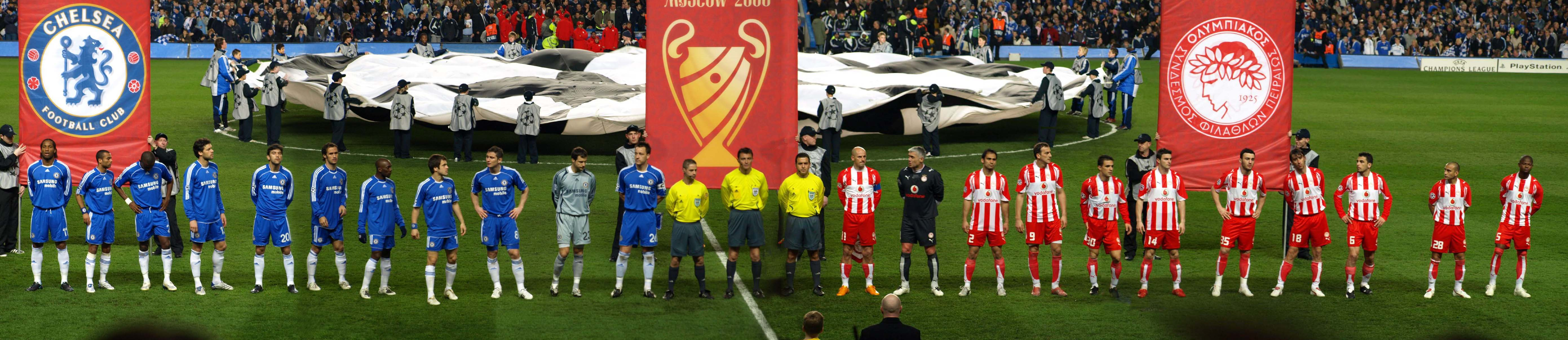 Merged images Image:Chelsea Olympiakos CL07-08 00.jpg and Image:Chelsea Olympiakos CL2008.jpg using Adobe Photoshop